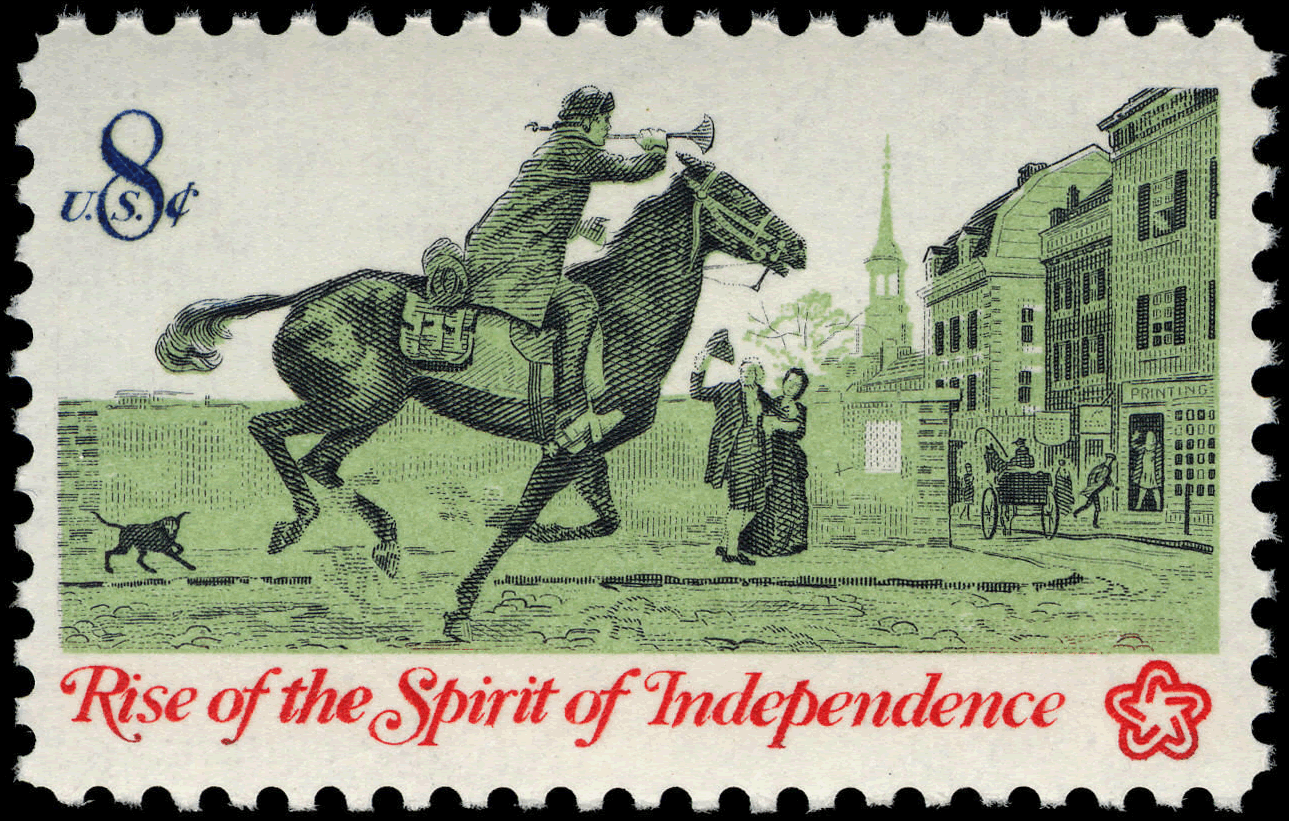 8-cent Post Rider commemorative stamp - 1973 American Bicentennial Communications Issue.